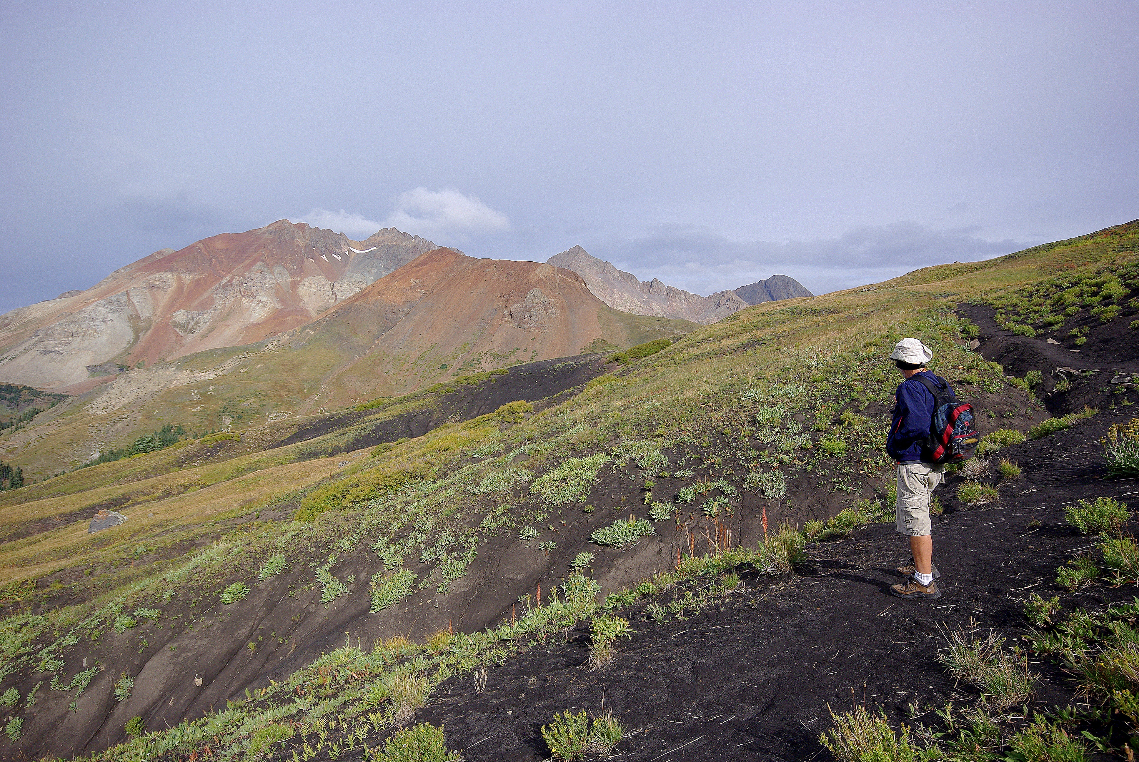 Looking toward the west at Cross Peak, Lizard Head Wilderness.